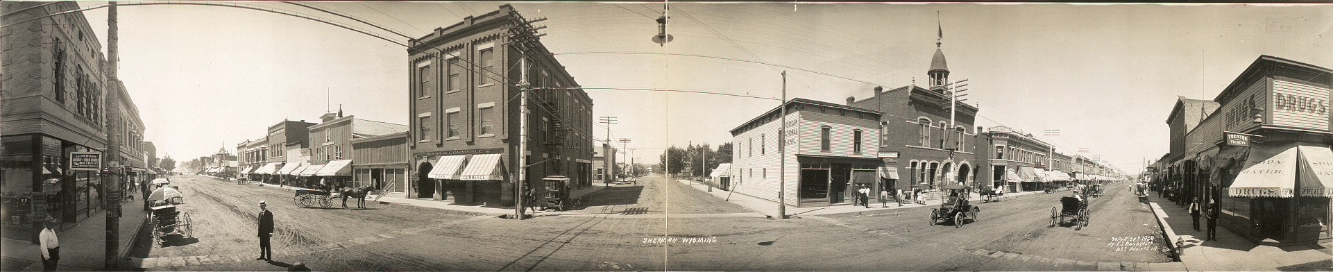 A panoramic photo of Sheridan, Wyoming taken in 1909.